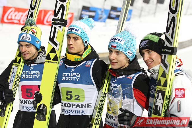 Polish team during team competition of FIS Ski Jumping World Cup in Zakopane, 2013 From left: Piotr Żyła, Maciej Kot, Krzysztof Miętus, Kamil Stoch